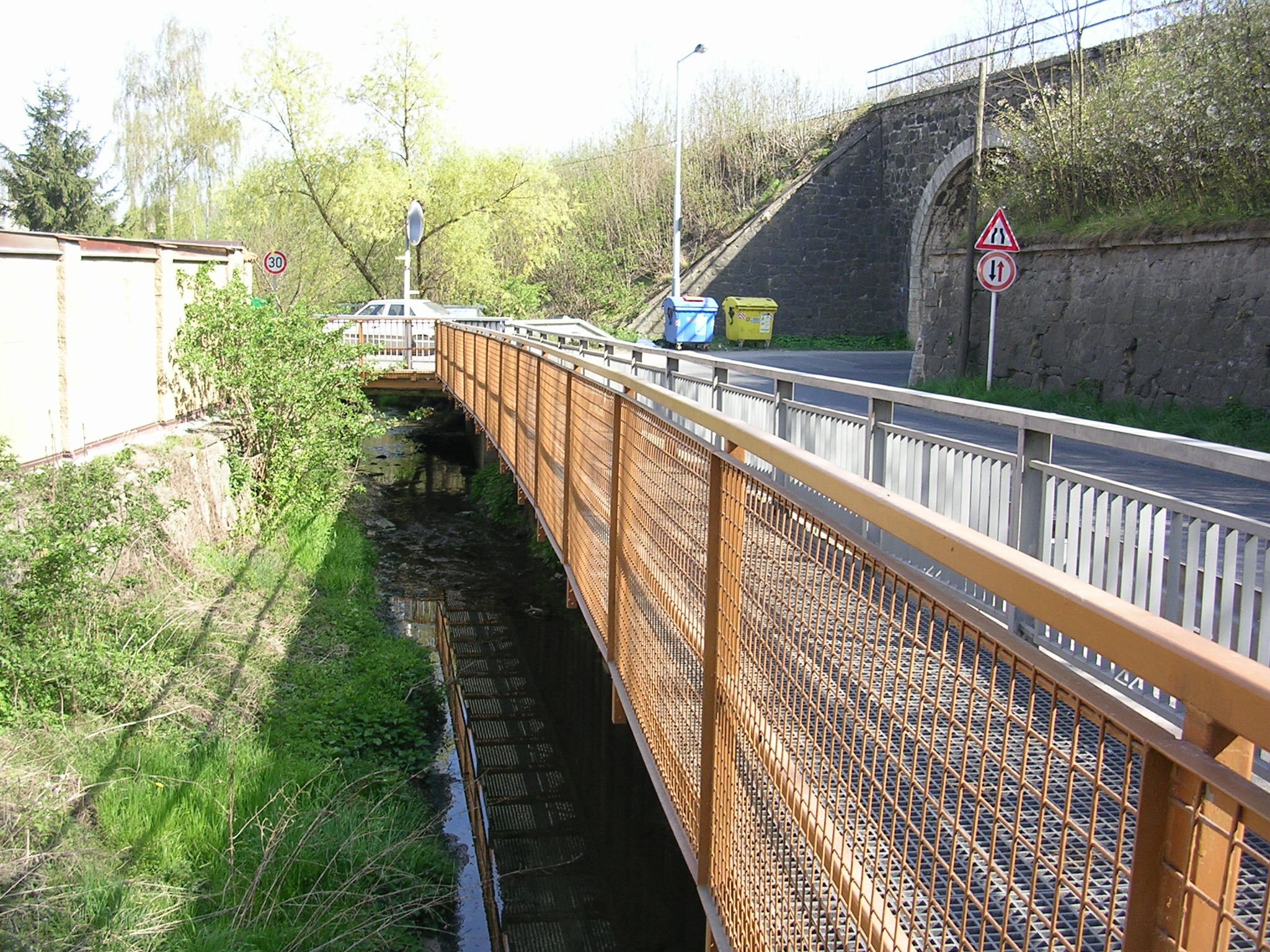 Prague-Řeporyje, the Czech Republic